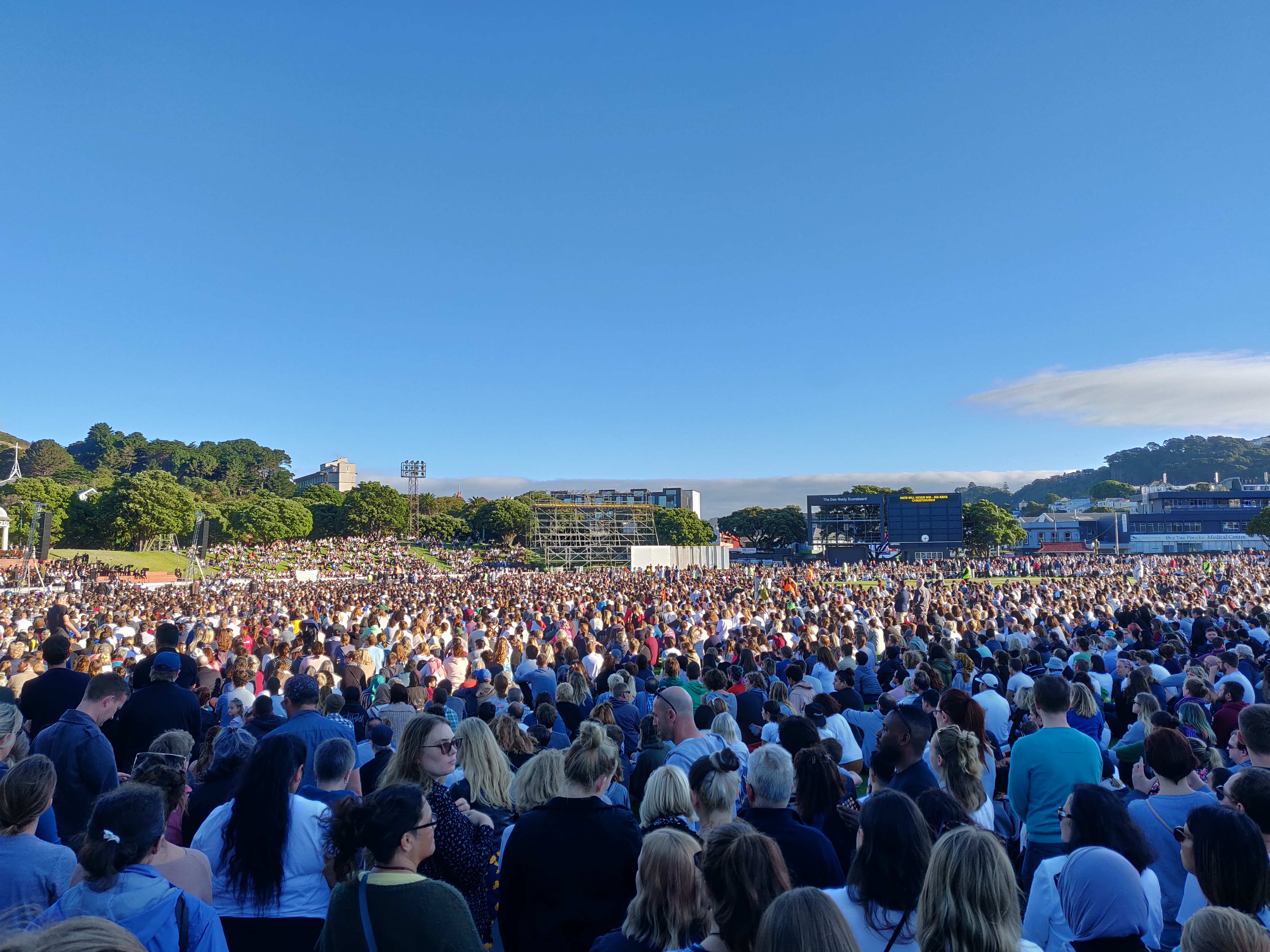 The crowd at the Basin Reserve for the Wellington Vigil for the Christchurch Mosque shootings, 17 March 2019